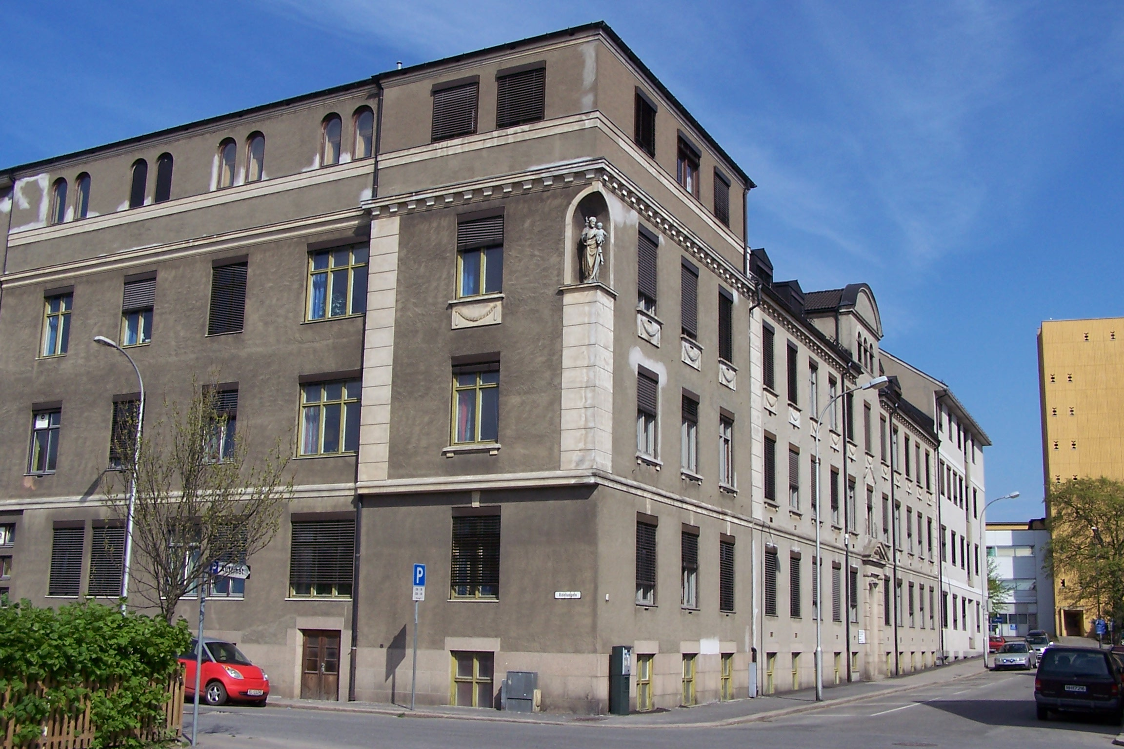 St. Joseph's Hospital in Fredrikstad, Norway. Opened as a Catholic hospital by the Sisters of St. Joseph in 1888, taken over by the county in the 1970's and now part of Østfold Hospital Fredrikstad